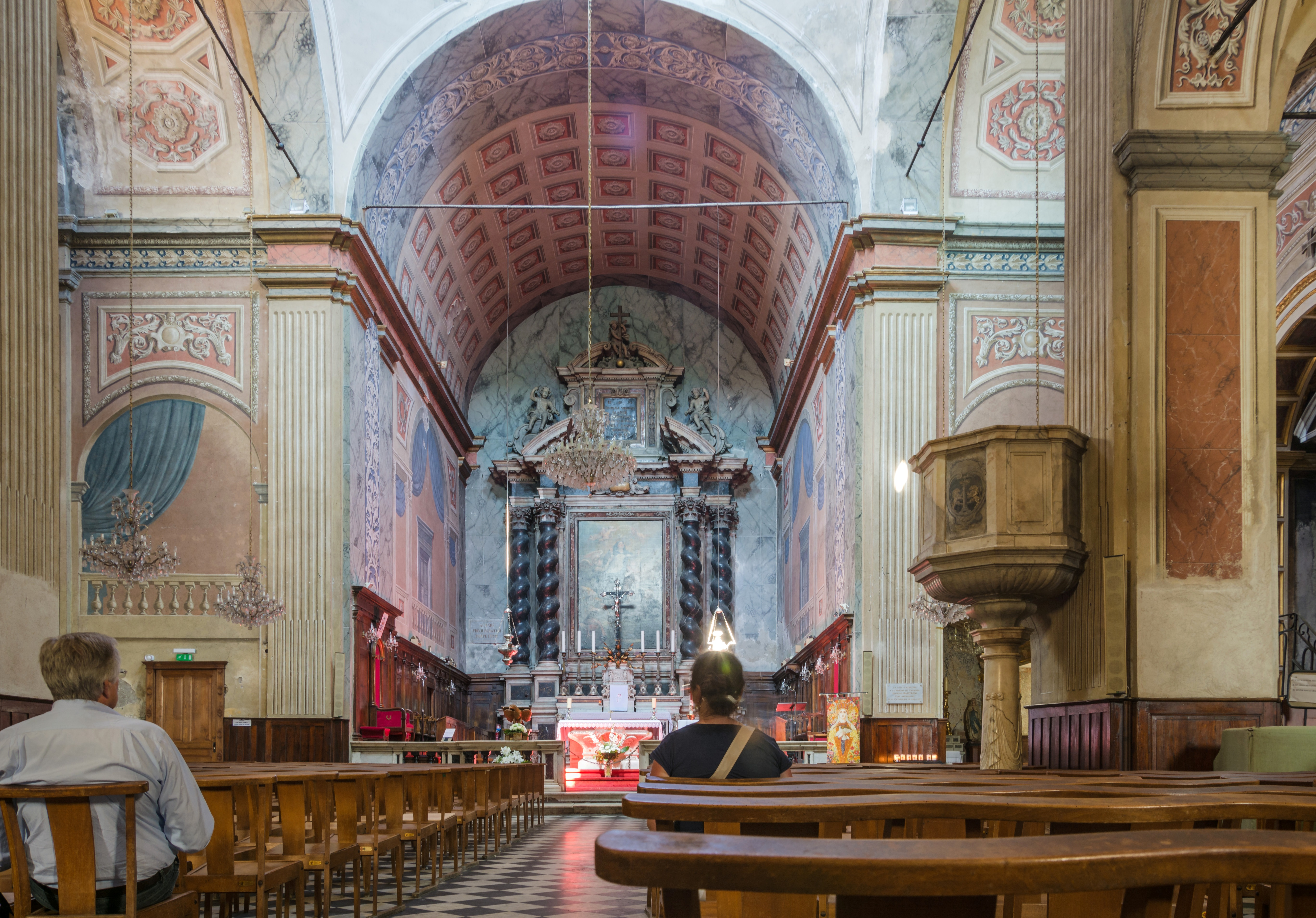 The Cathedral of Our Lady of the Assumption of Ajaccio was built between 1577 and 1593. Napoleon Bonaparte was baptized in this church.